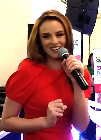 Georgina Wilson attending the Garnier event at Trinoma mall in Quezon City last October 13, 2012.